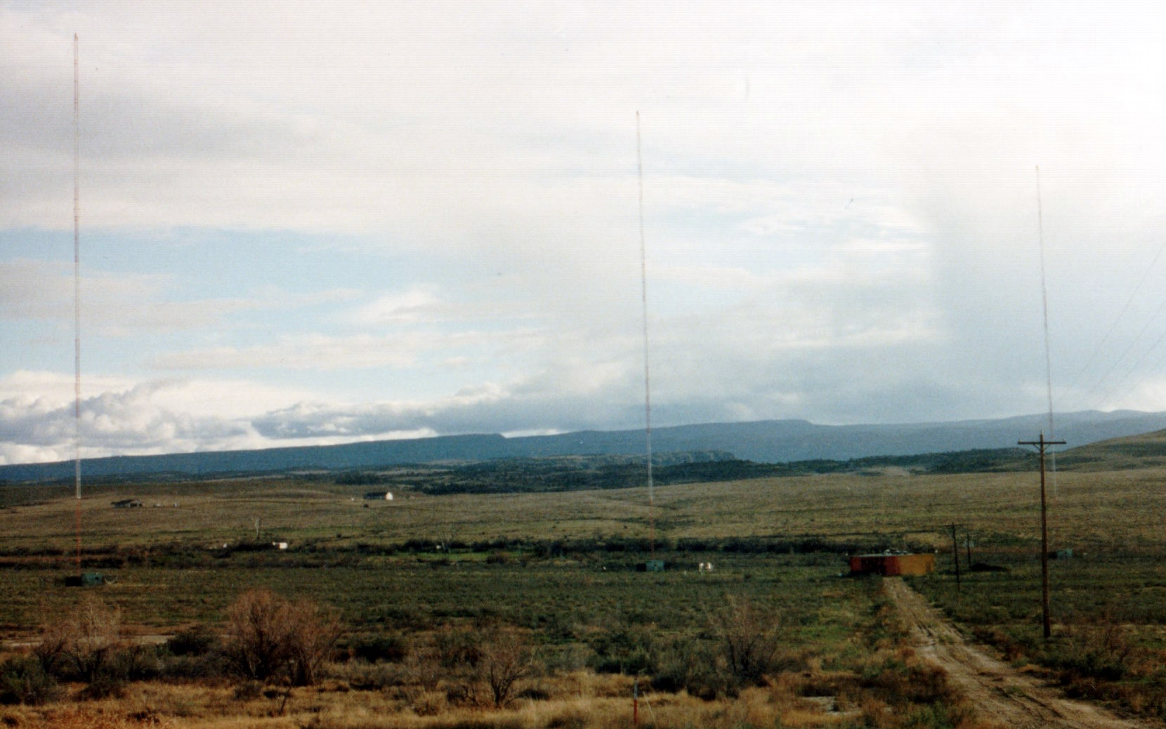 KNZZ 1100 AM broadcast towers near Grand Junction, Colorado. Scanned from original 35MM print, taken with a Canon SLR camera.